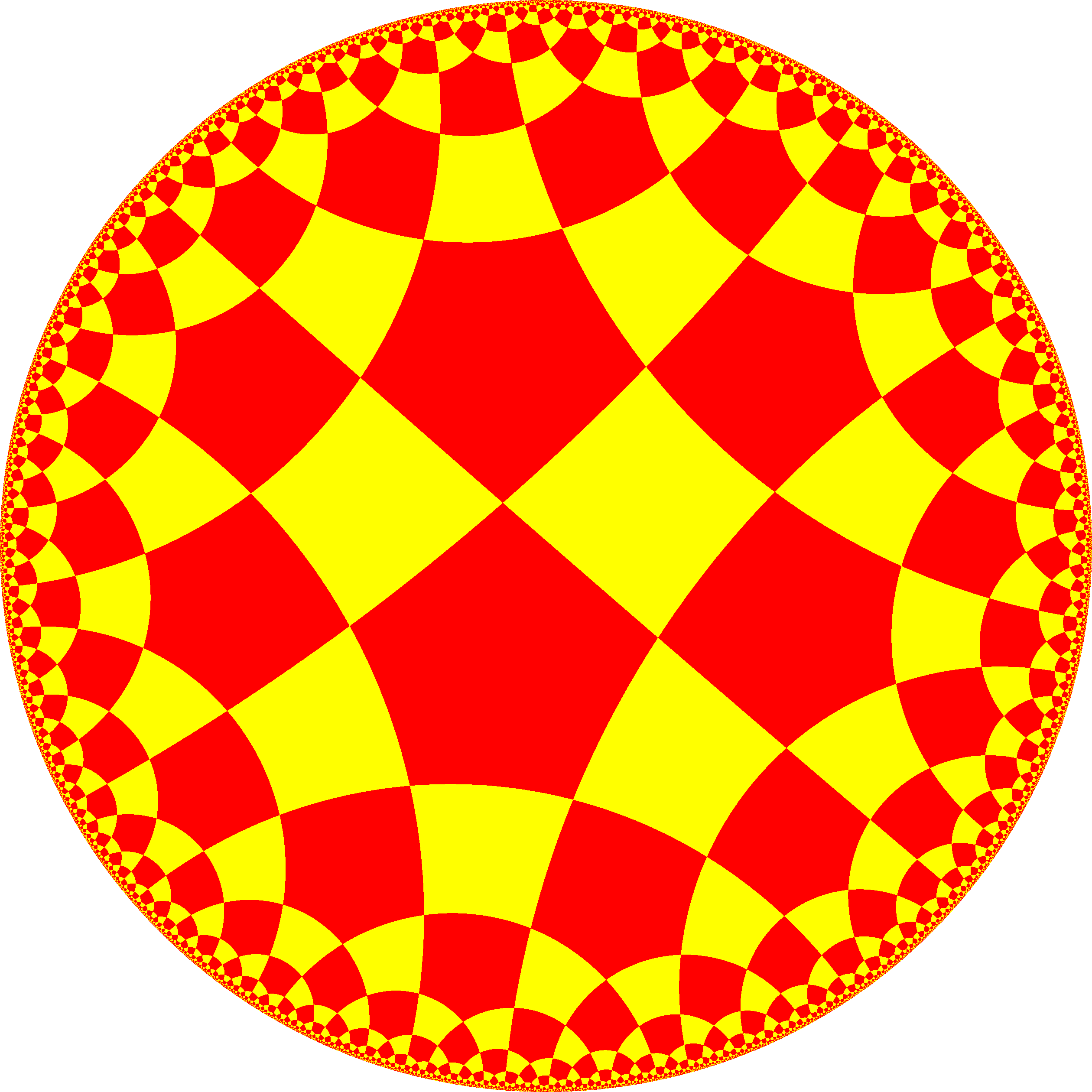 Uniform tiling of hyperbolic plane, o4x5o. Generated by Python code at User:Tamfang/programs. Equivalent